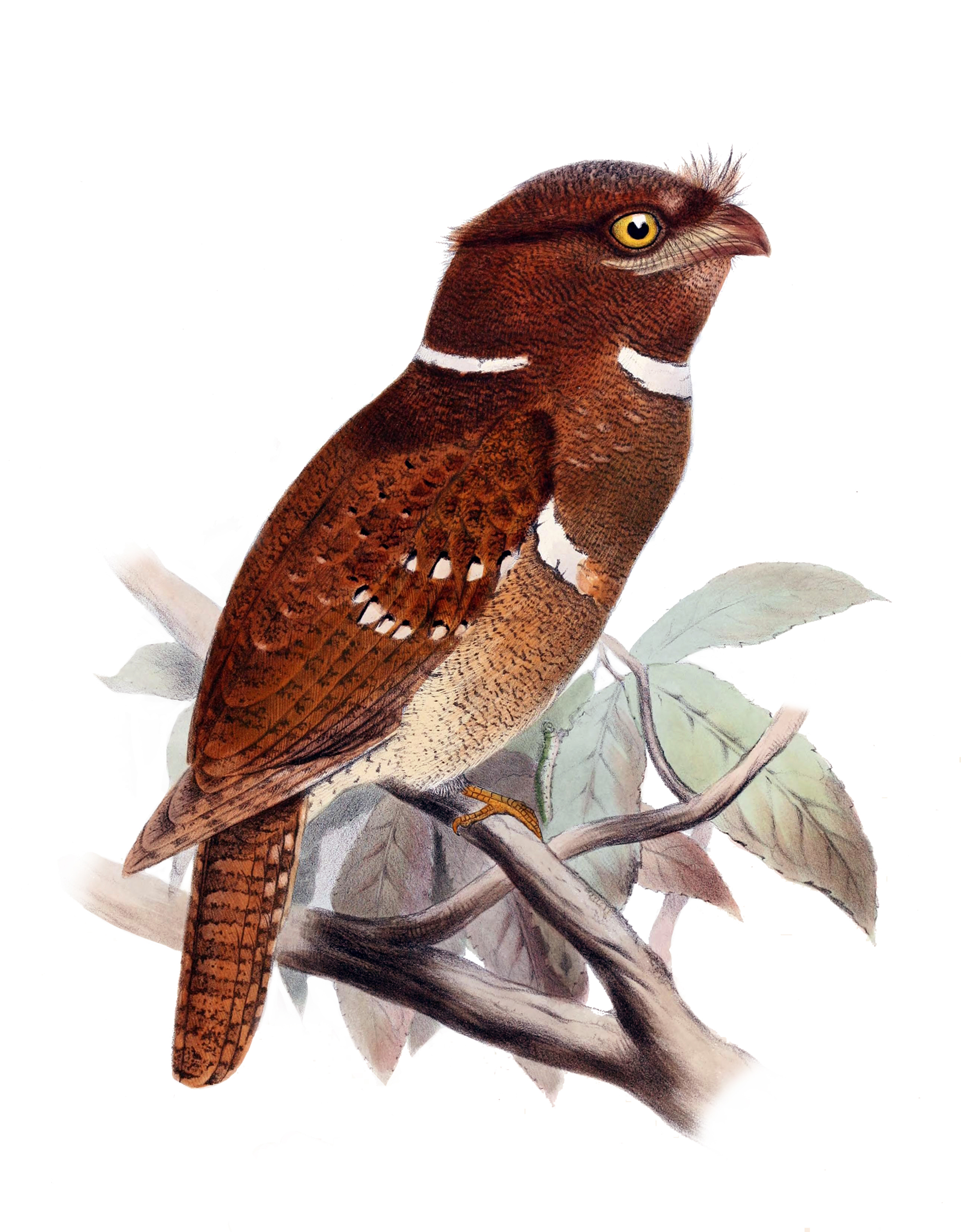 « Batrachostomus septimus » = Batrachostomus septimus (Philippine Frogmouth)